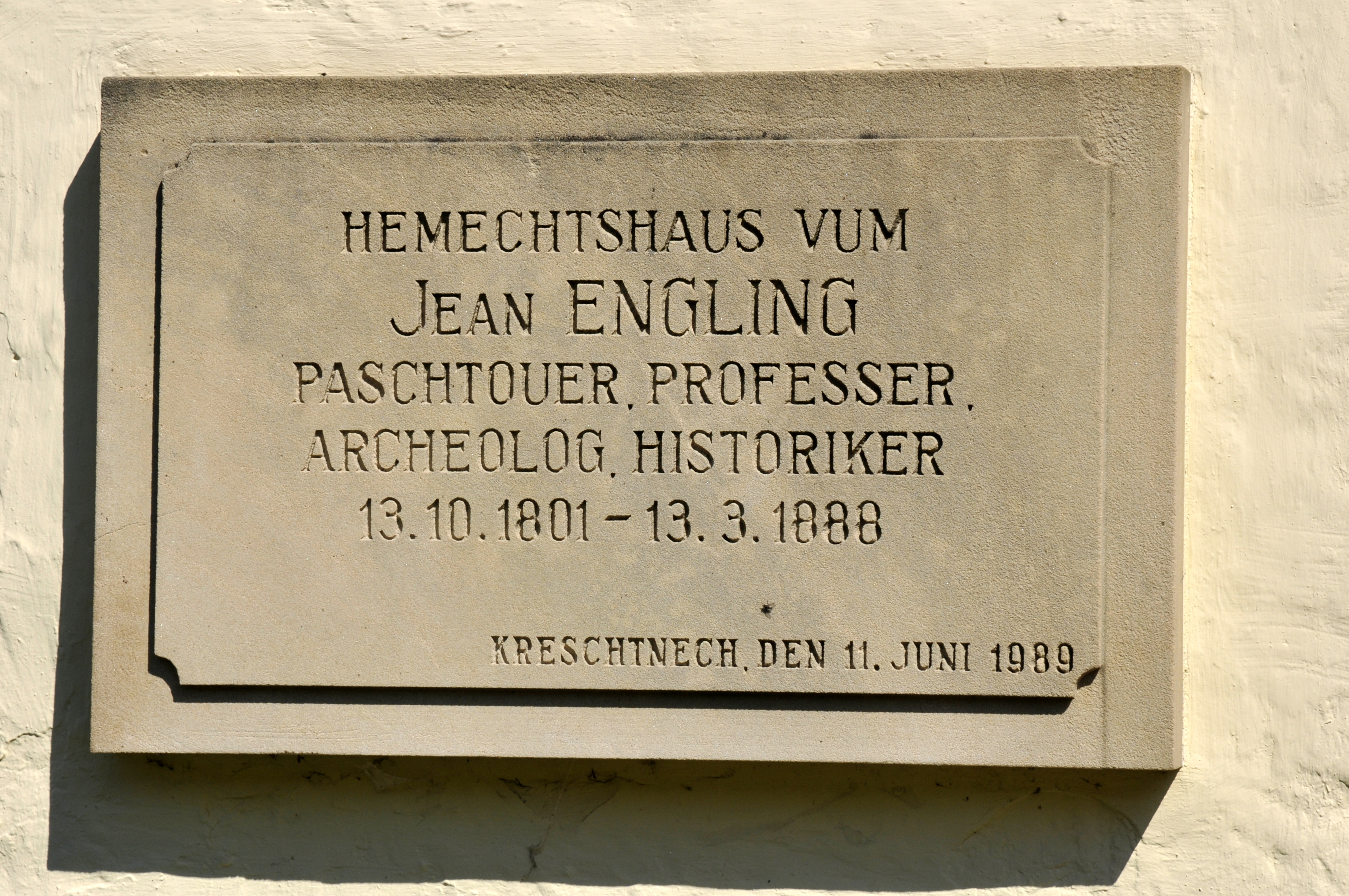 Commemorative plaque on the Uelegmillen, where Jean Engling lived